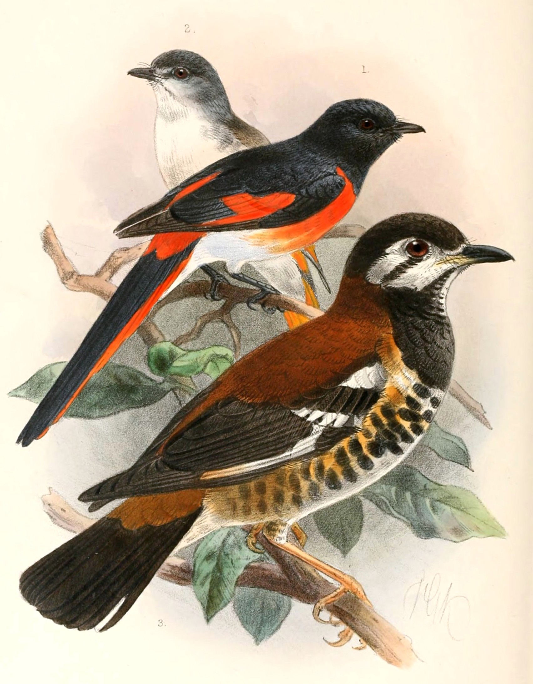 « Pericrocotus lansbergi » = Pericrocotus lansbergei (Little Minivet) - male and female « Geocichla dohertyi » = Geokichla dohertyi (Chestnut-backed Thrush)